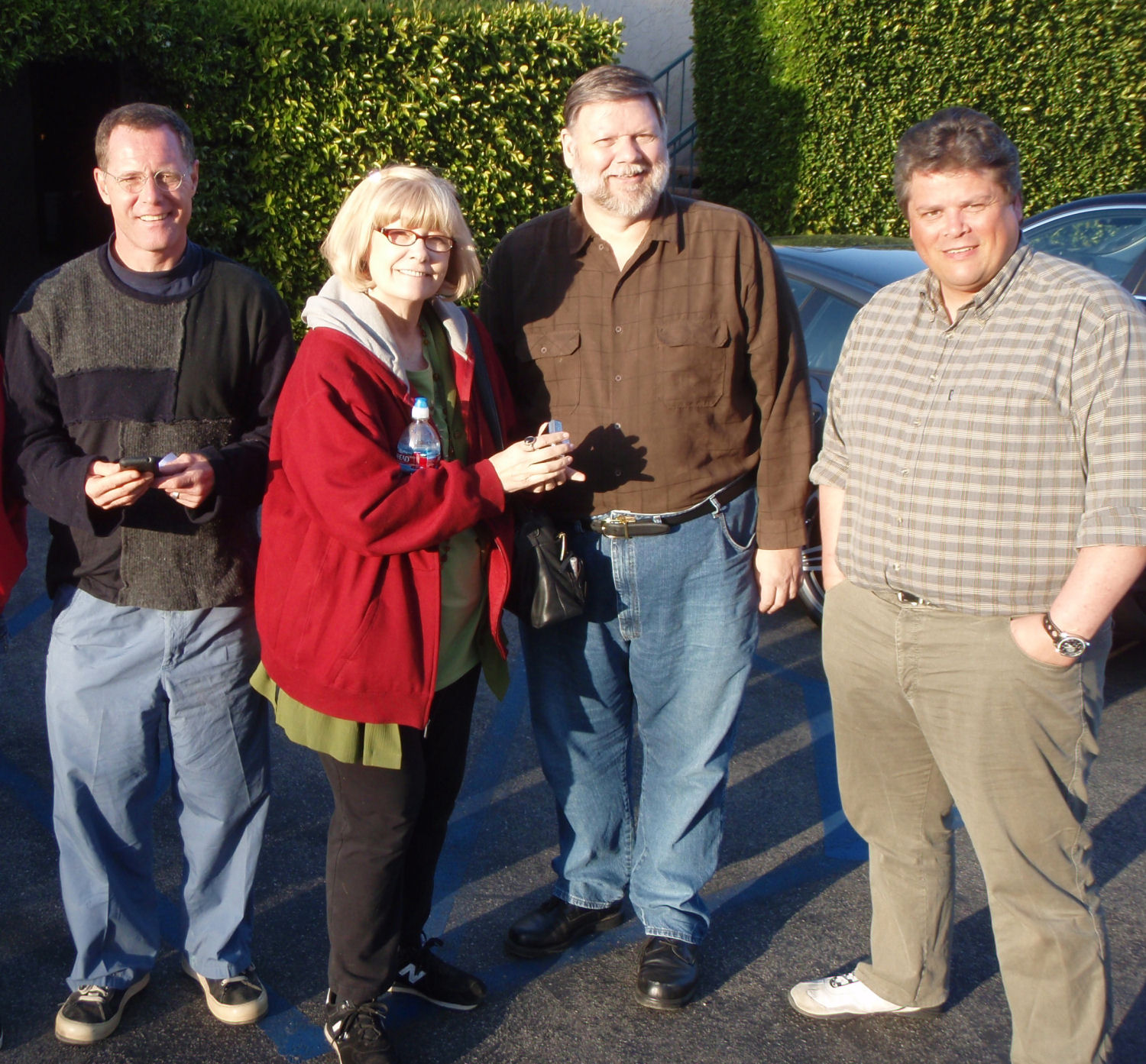 Actor Jason Beghe, with Tory Christman, Mark Bunker and Andreas Heldal-Lund. Picture taken outside a restaurant in Malibu, California